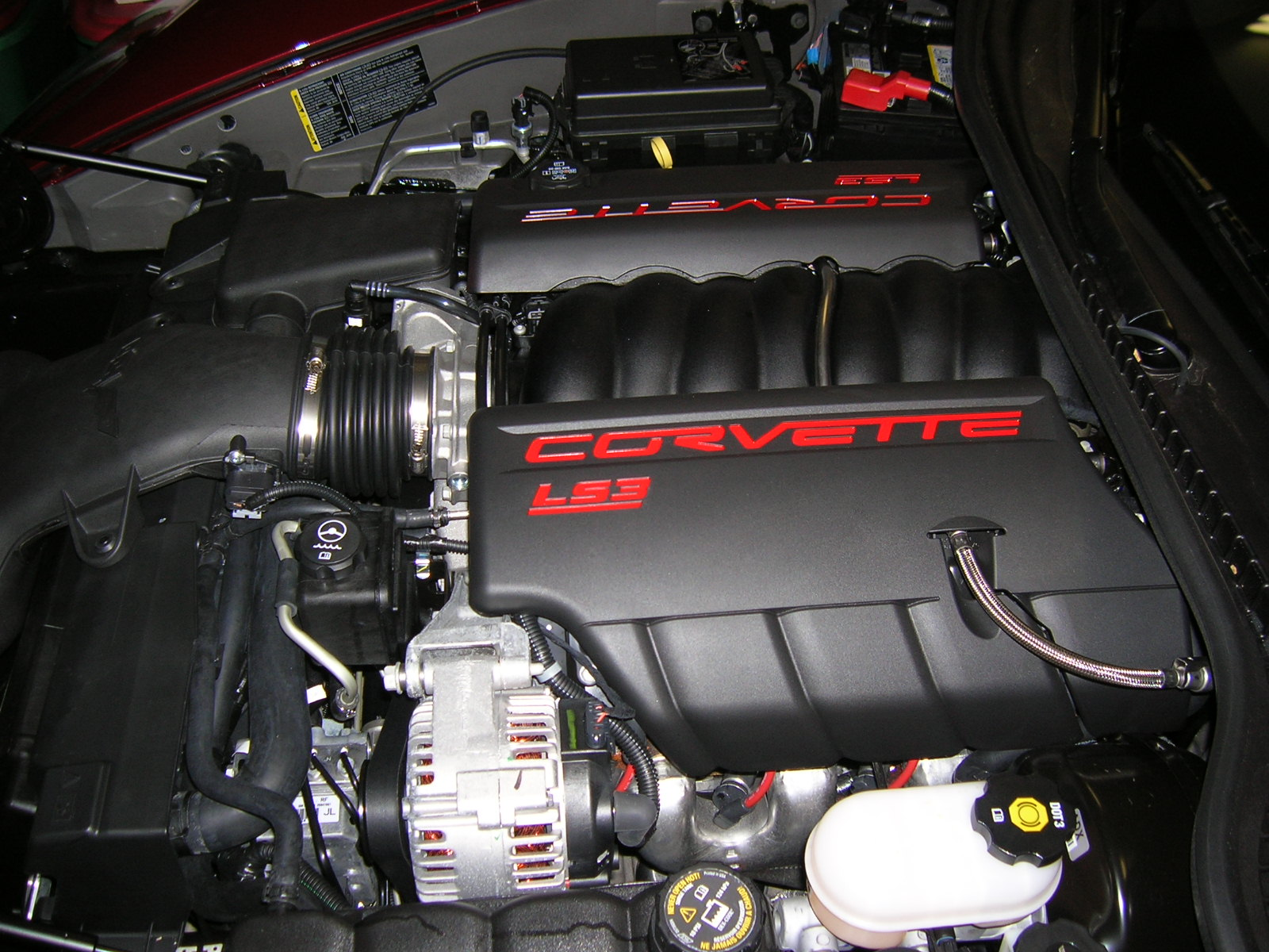 A General Motors LS3 Engine in a 2008 Corvette.